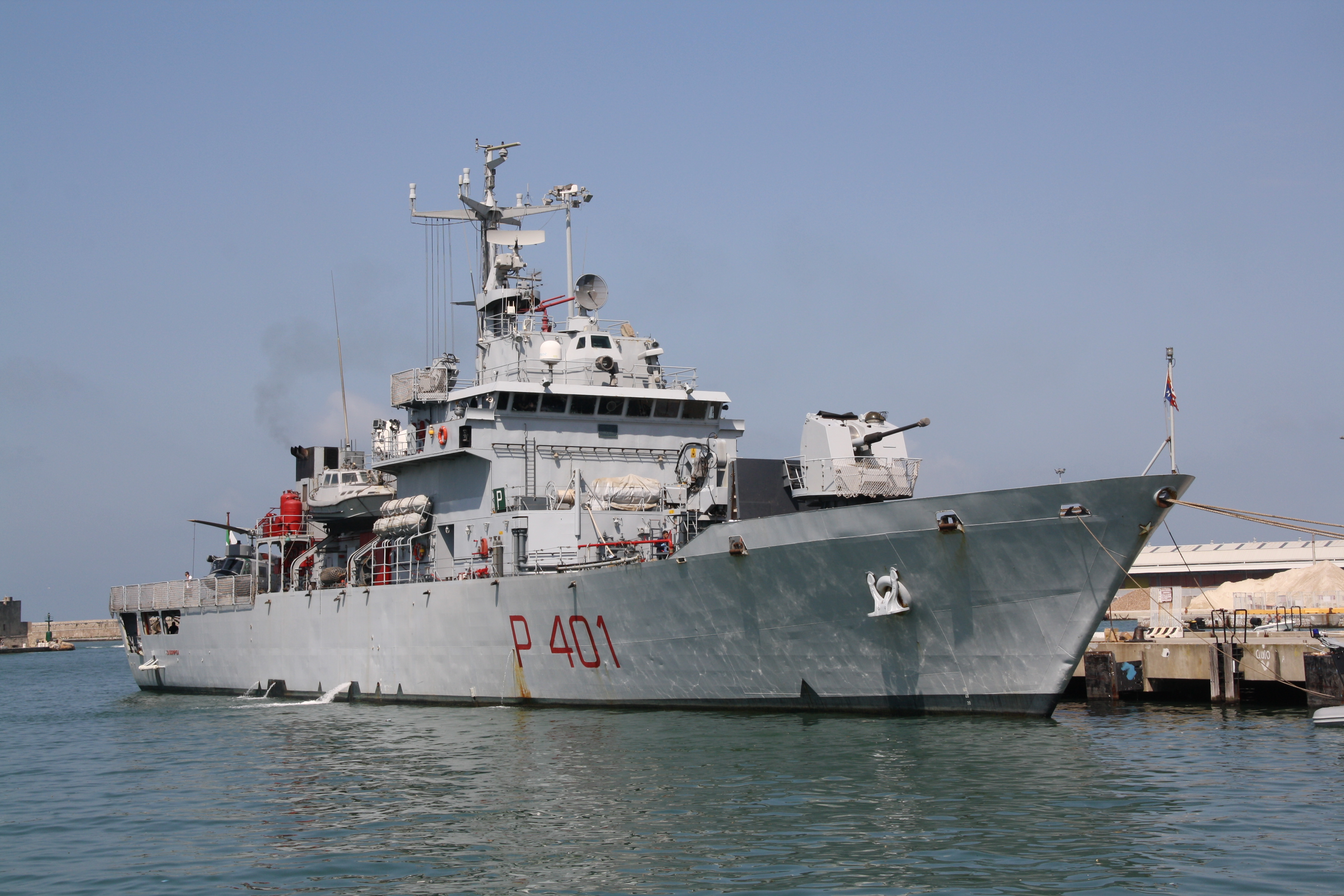 Italy Navy: Marina Militare Type: Patrol vessel Keel laid: December 16, 1987 Launch date: July 20, 1988 Shipyard: Cantiere navale del Muggiano, La Spezia Displacement: 1745 t Length overall: 81 m Beam: 11,8 m Draft: 4 m Main engine: 2 diesel GMT BL-230.16M Speed: 16 knots Crew: 74 Armament: 1 OTO Melara 76/62, 2 machine guns KBA 25/80, 2 machine guns MG 42/59